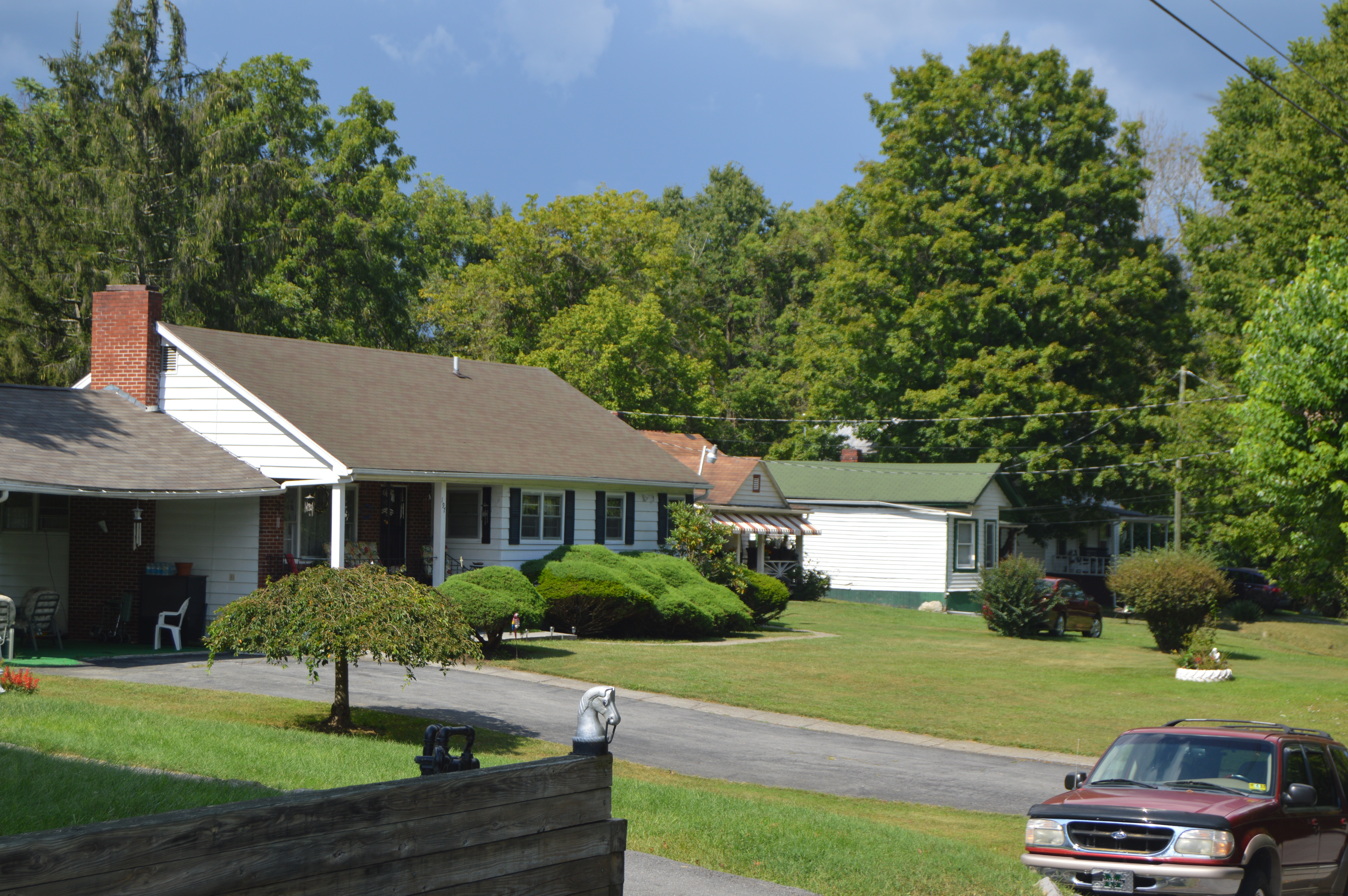 Houses on the western side of Maple Street just north of the U.S. Route 60 bridge in Lewisburg, West Virginia, United States. This block is part of the Maple Street Historic District, a historic district that is listed on the National Register of Historic Places.